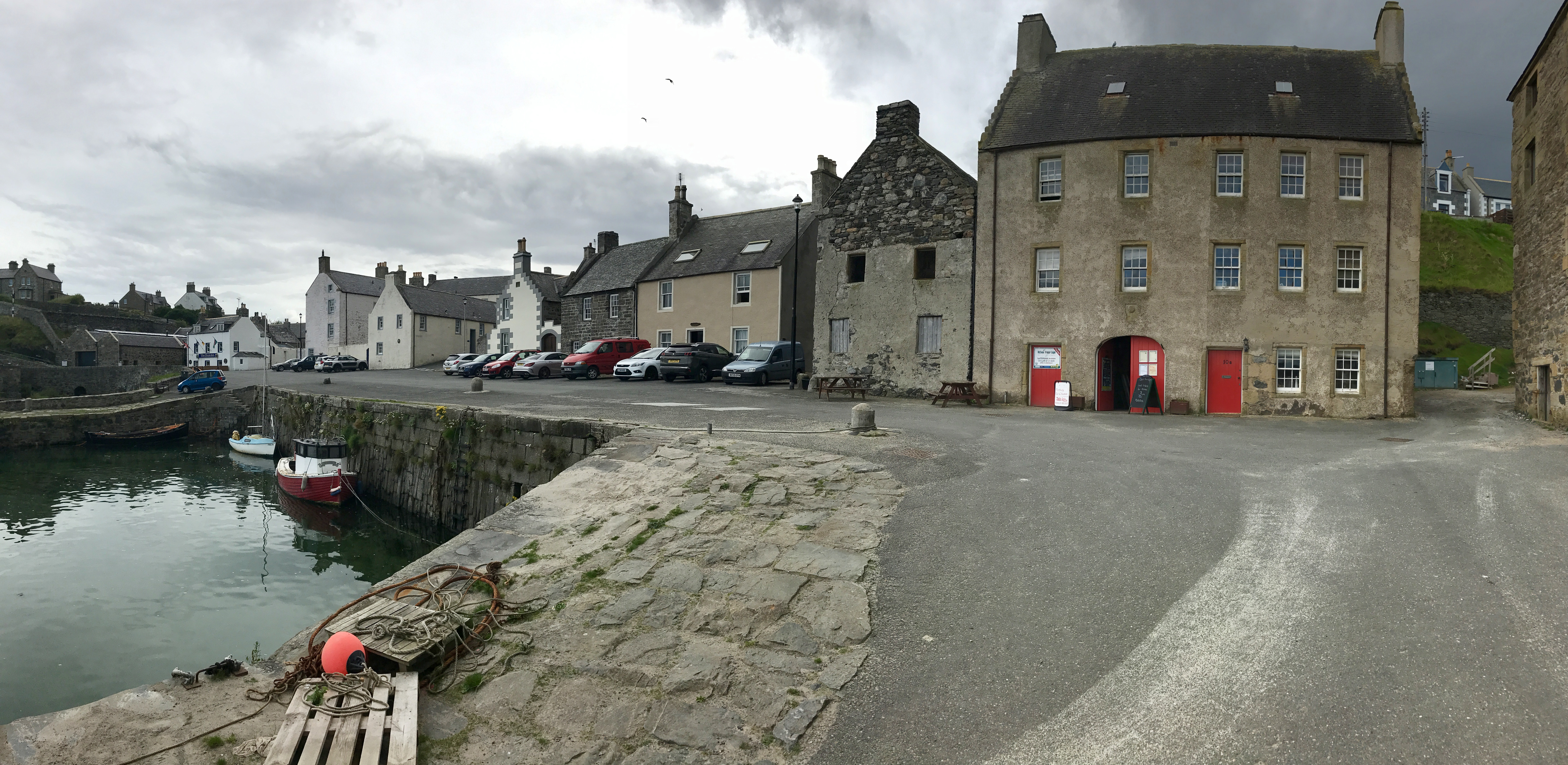 Portsoy, 7, 8, 9, & 10 Shorehead Wikidata has entry Q17571745 with data related to this item.